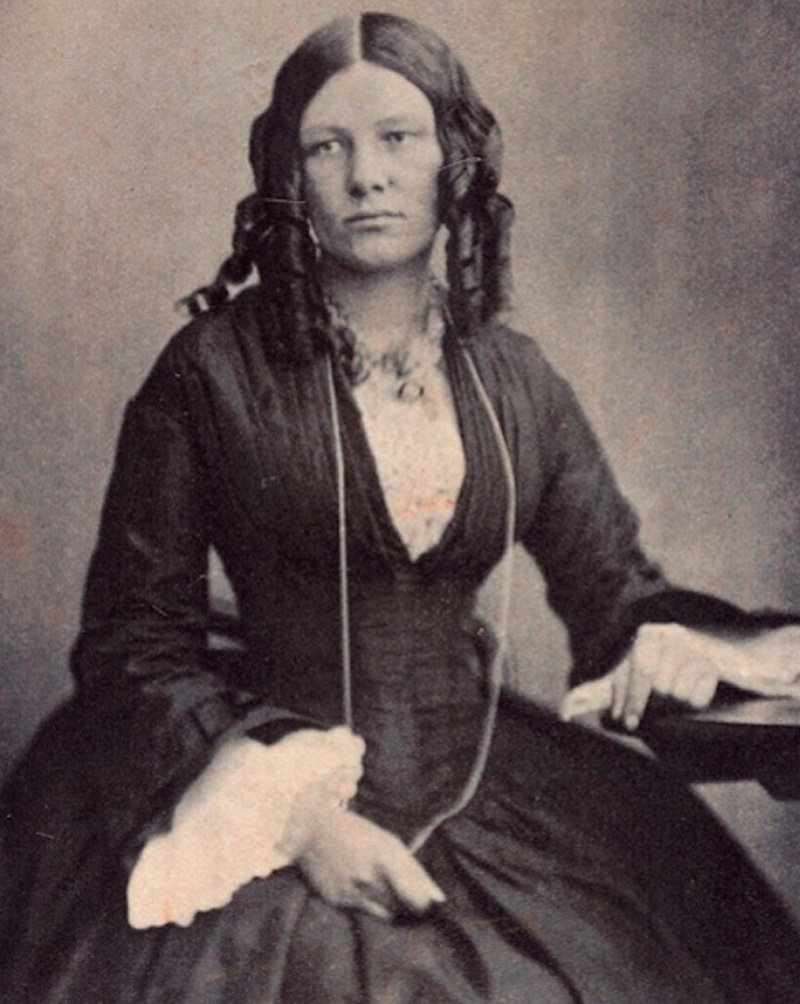 Annabella Innes (later Boswell) circa 1850. She was the author of a journal which describes the Ruins at Lake Innes, Port Macquarie